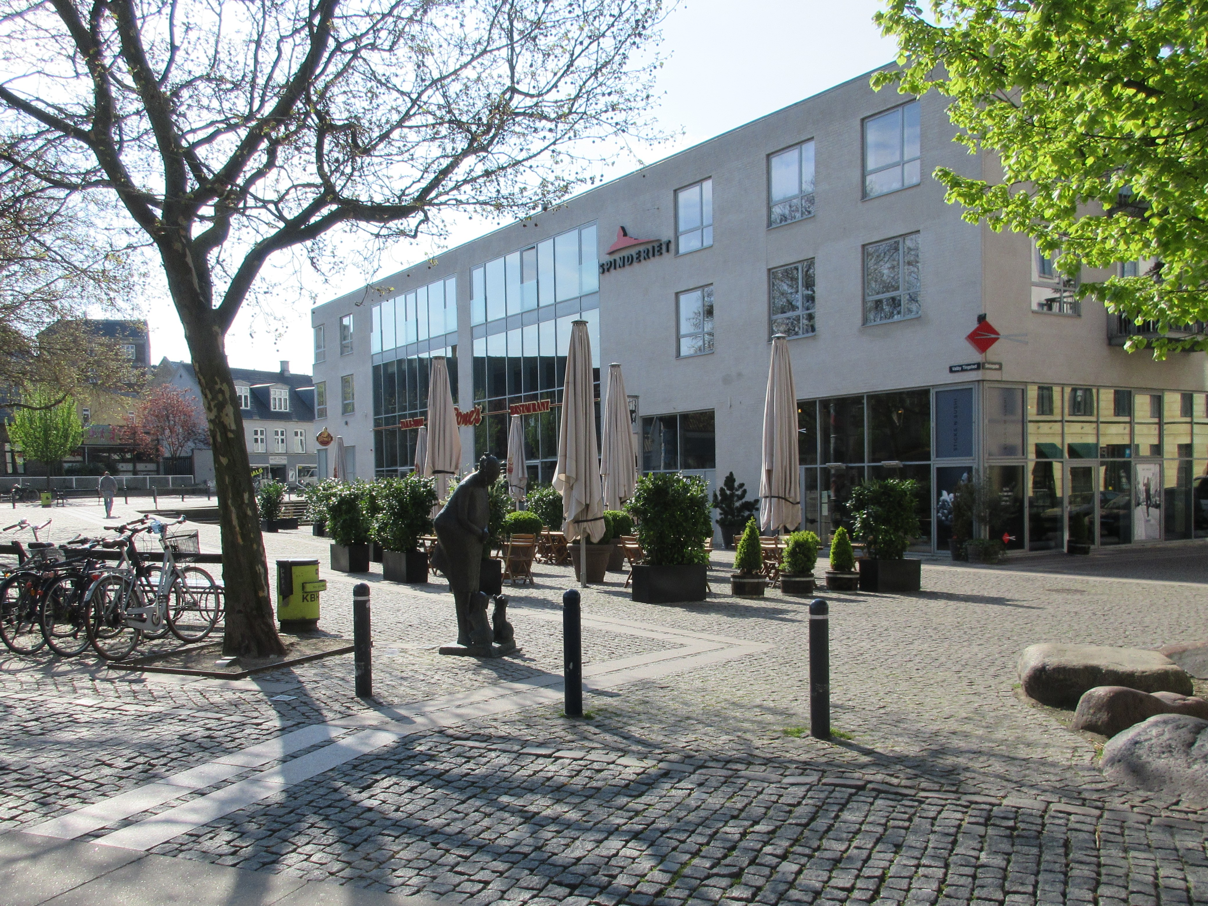 Valby Tingsted in Copenhagen, Denmark